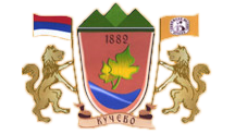 Greater coat of arms of Kučevo